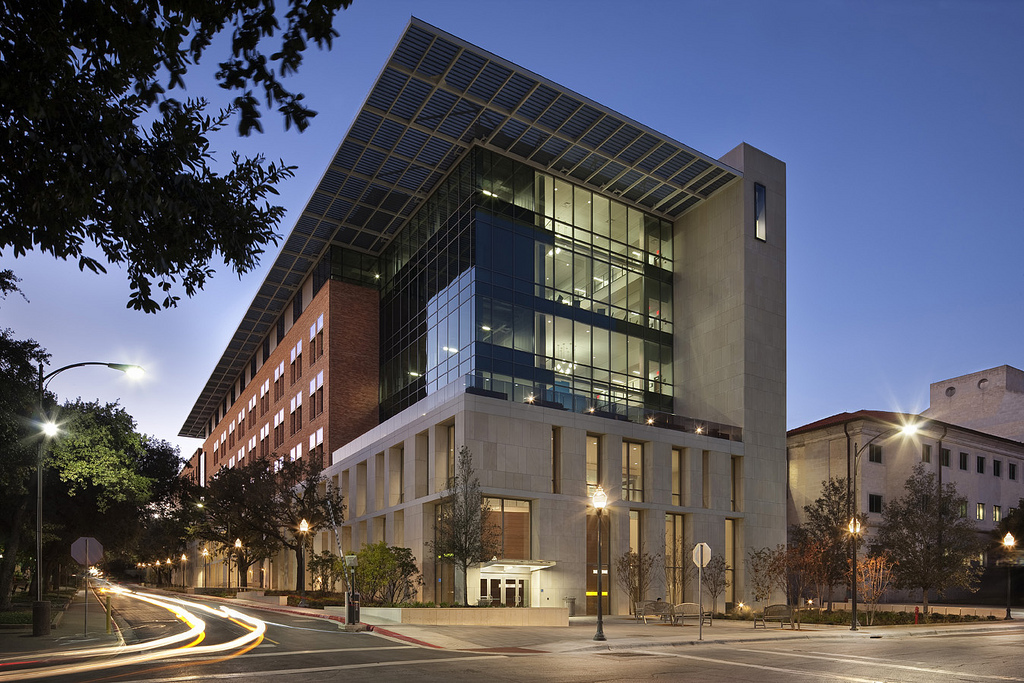 Architectural photography from Austin, TX.